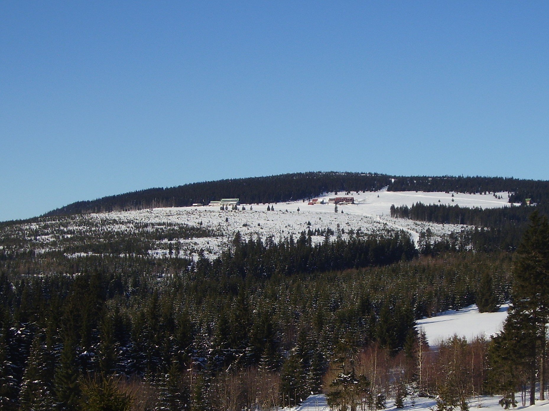 View at Liščí louka from mountin hut Mír